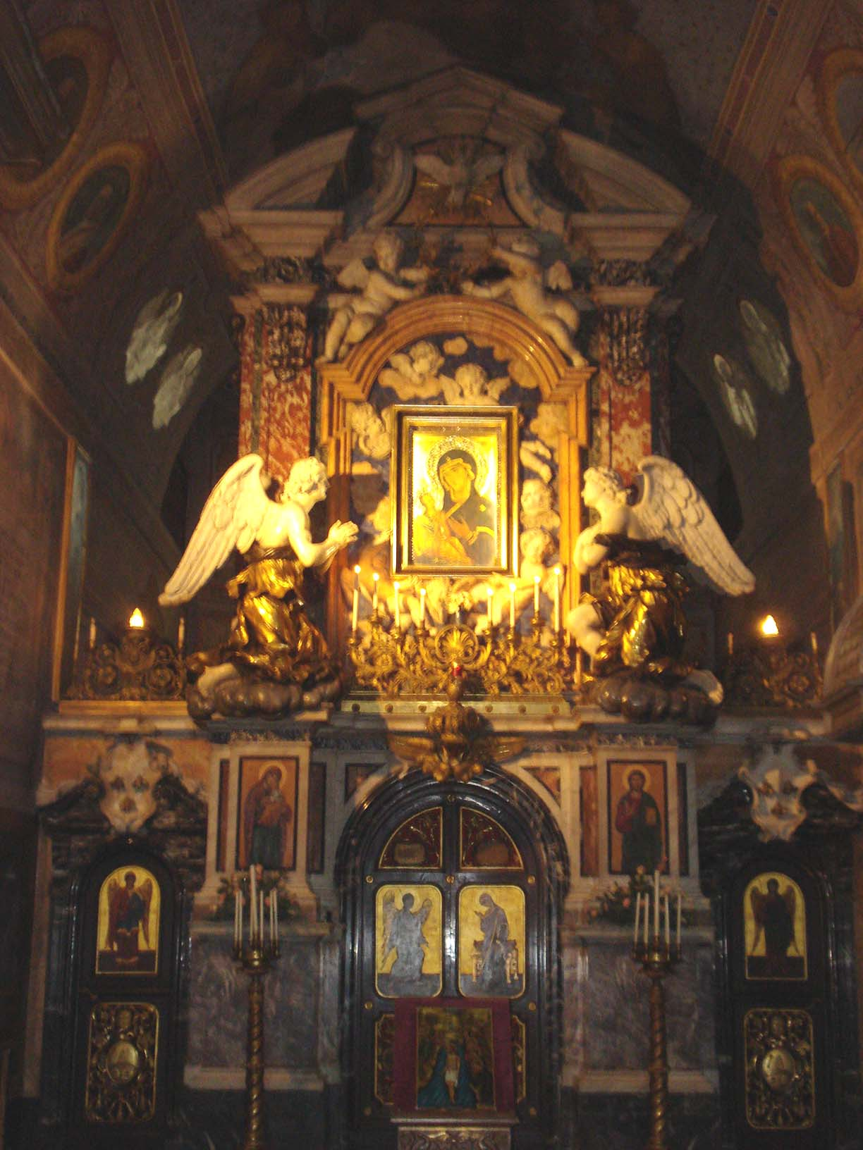 Abbazia of Grottaferrata (RM), Iconostasis (XVII cent)